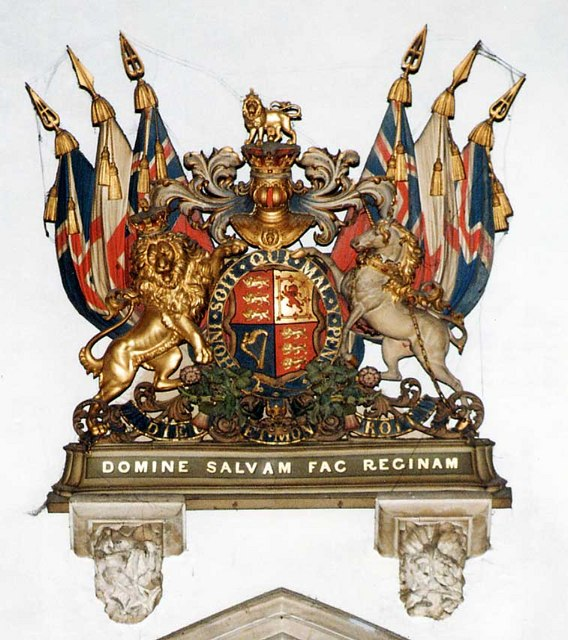 St Thomas, Newport - Royal Arms